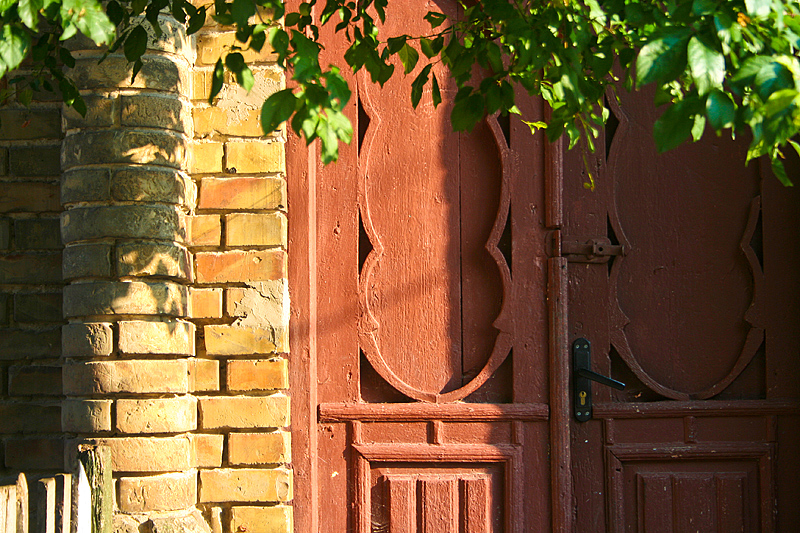 Halshky Hulevychivny street (Former Armenian street)